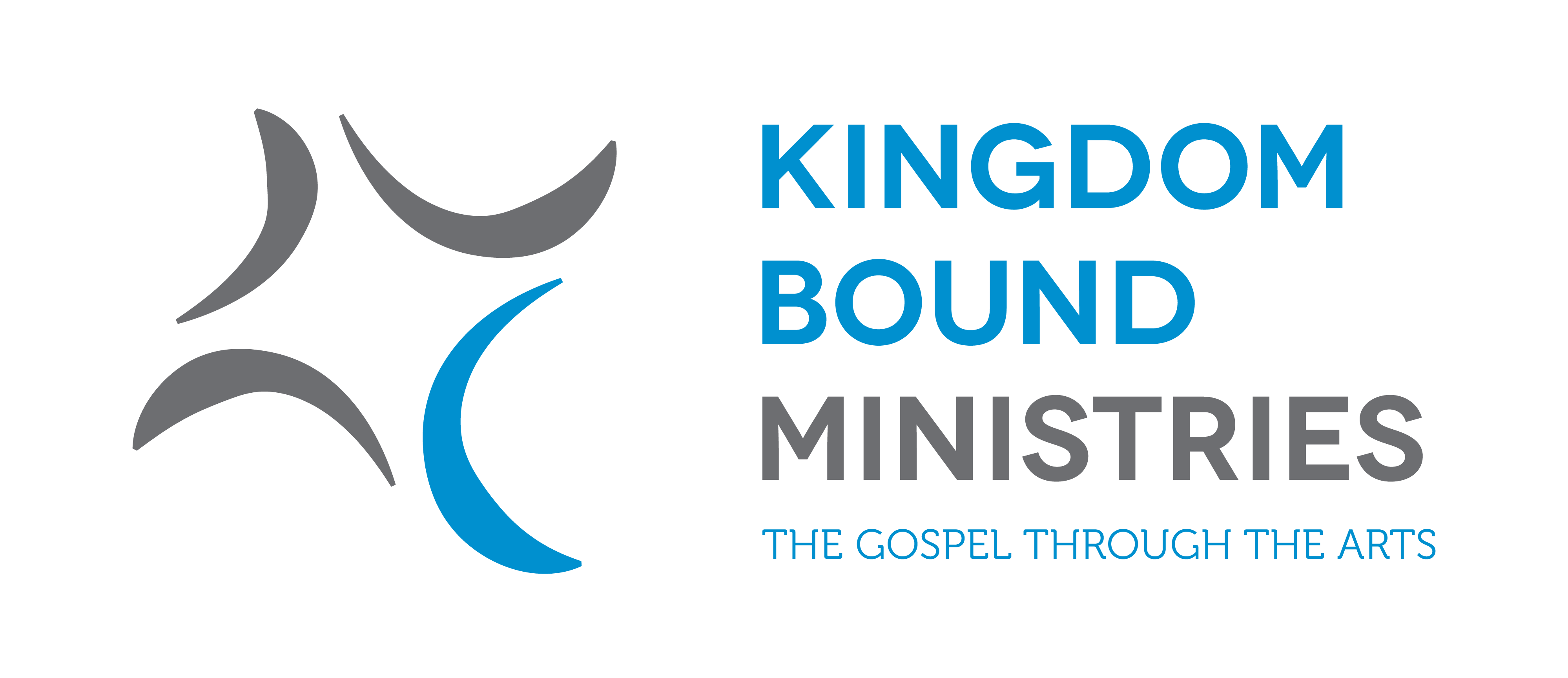 Kingdom Bound Ministry Logo